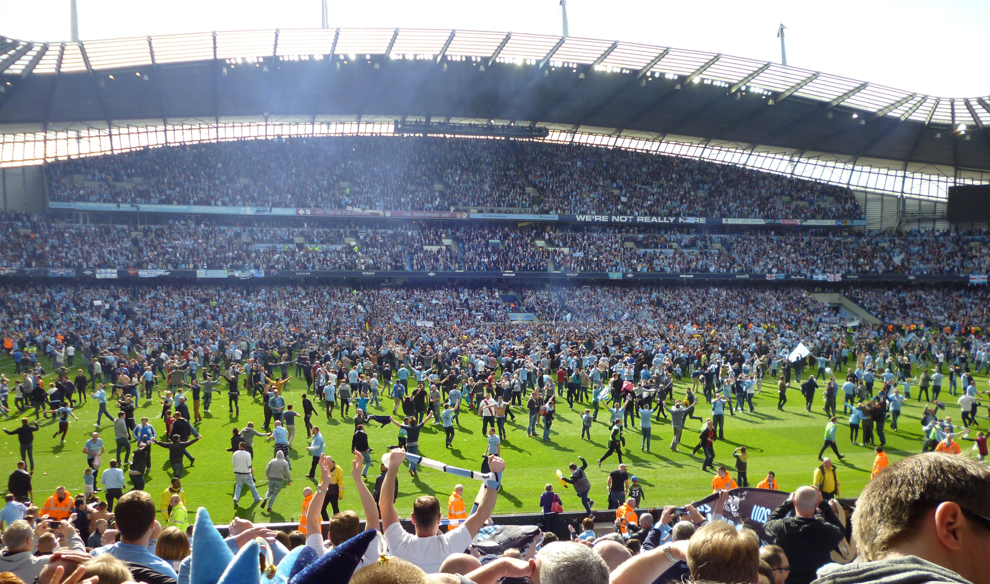 Manchester City fans invade the pitch following a 3-2 victory against Queens Park Rangers that wins the Premier League title for the club, City's first championship in 44 years.